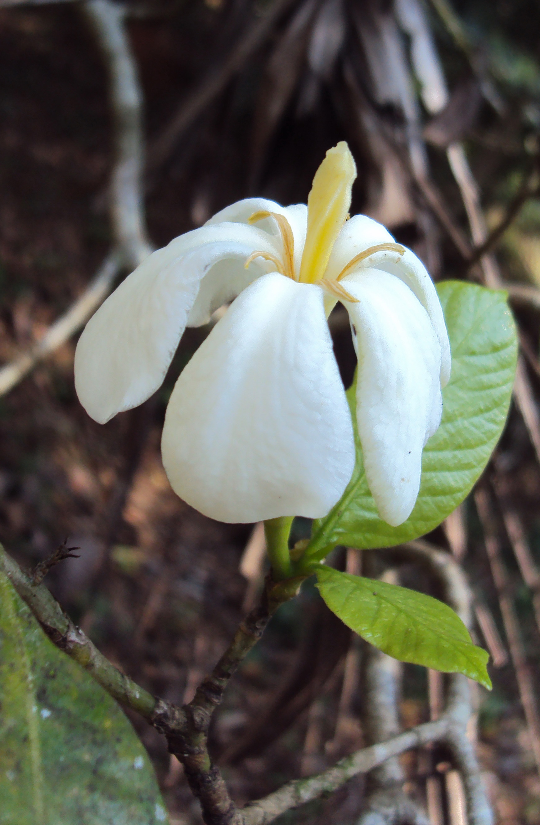 Gardenia gummifera